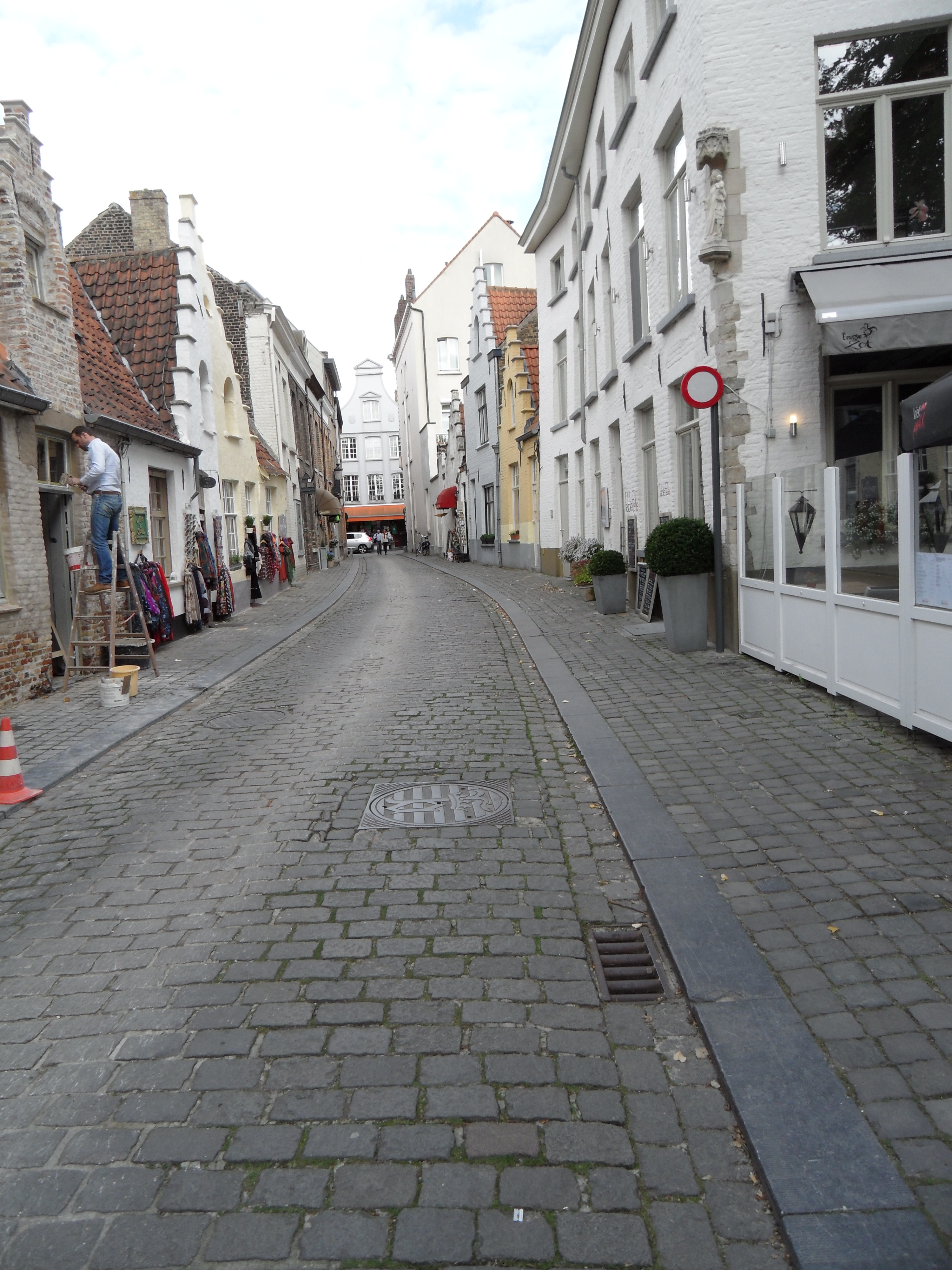 Walstraat in Bruges